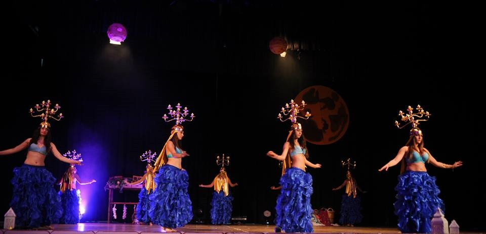 Arab dance of Shamadan